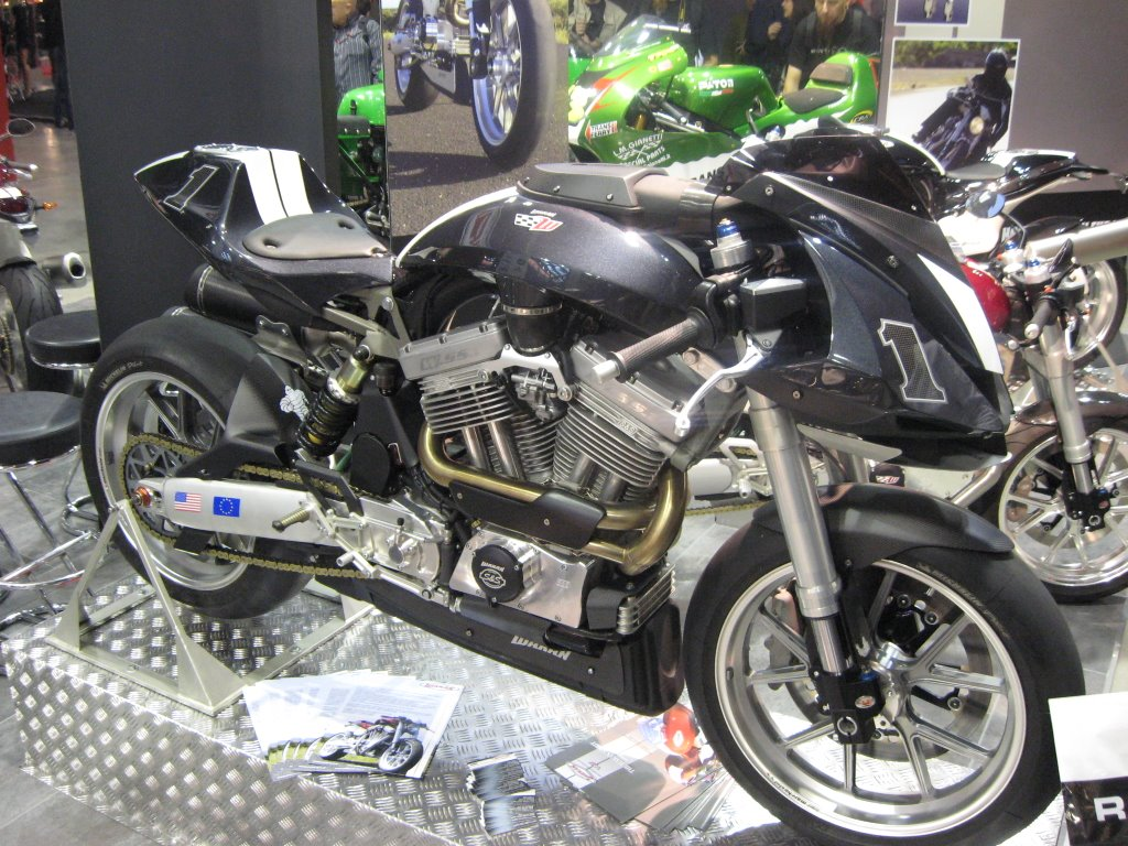 Wakan Track Racer motorcycle